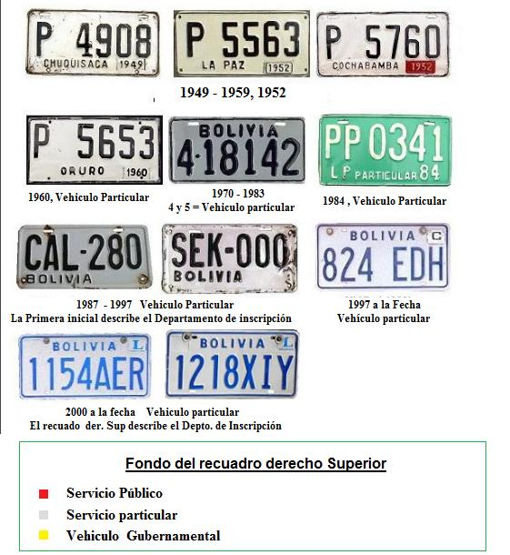 License plates of Bolivia, 1949 to nowadays